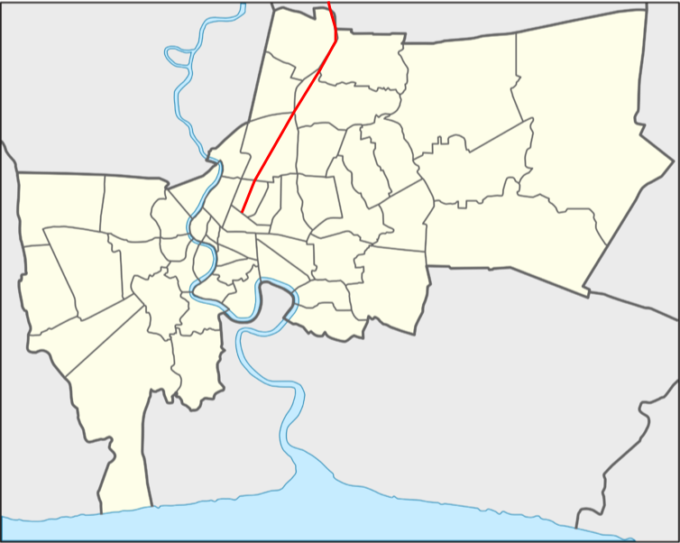 Course of Phahonyothin Road in Bangkok